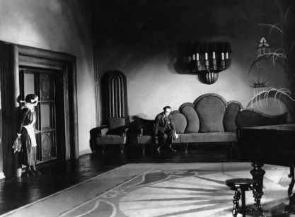 Scene from the austrian film Orlacs Hände, 1924